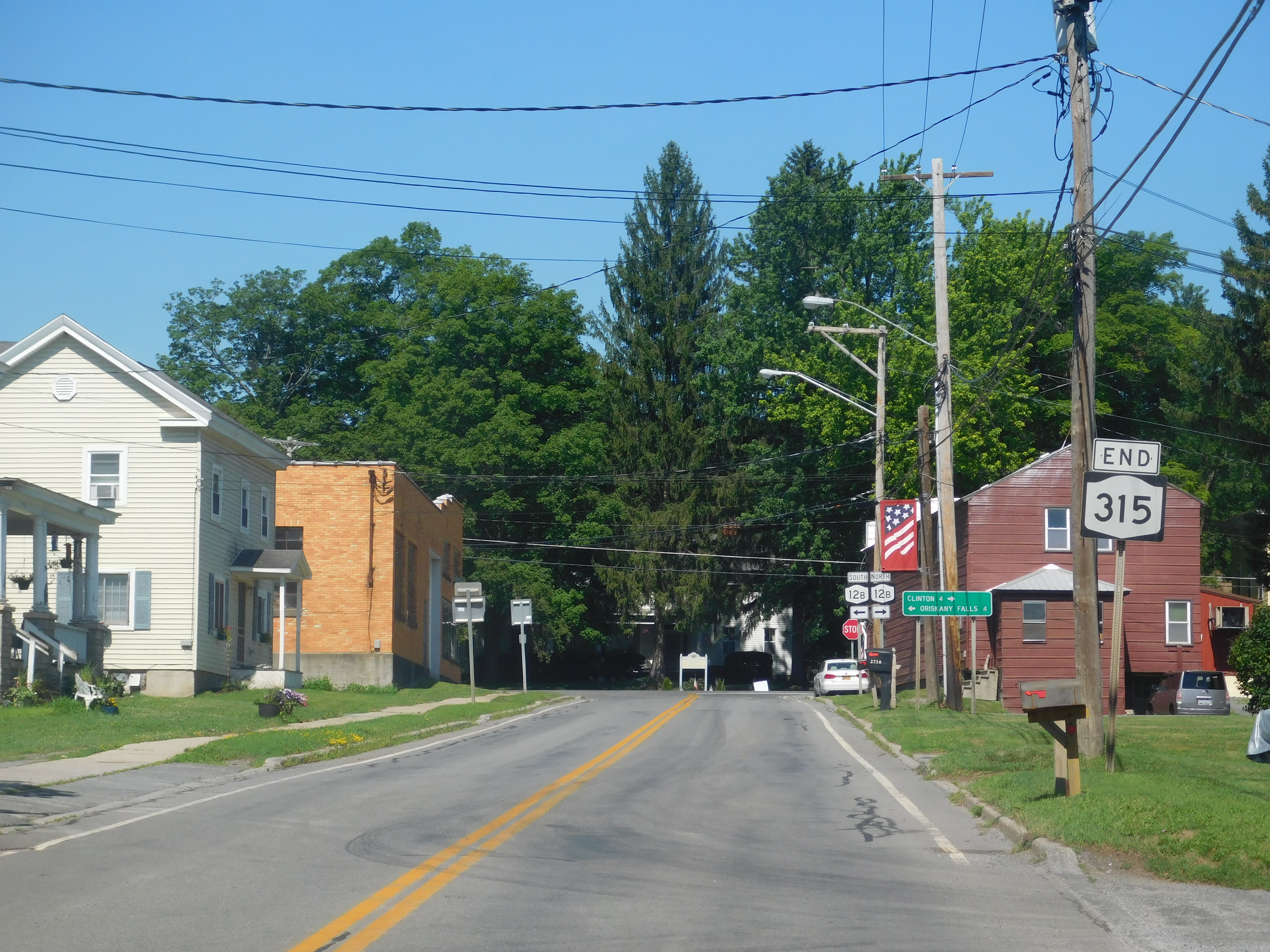 New York State Route 315 northbound in Deansboro, New York.